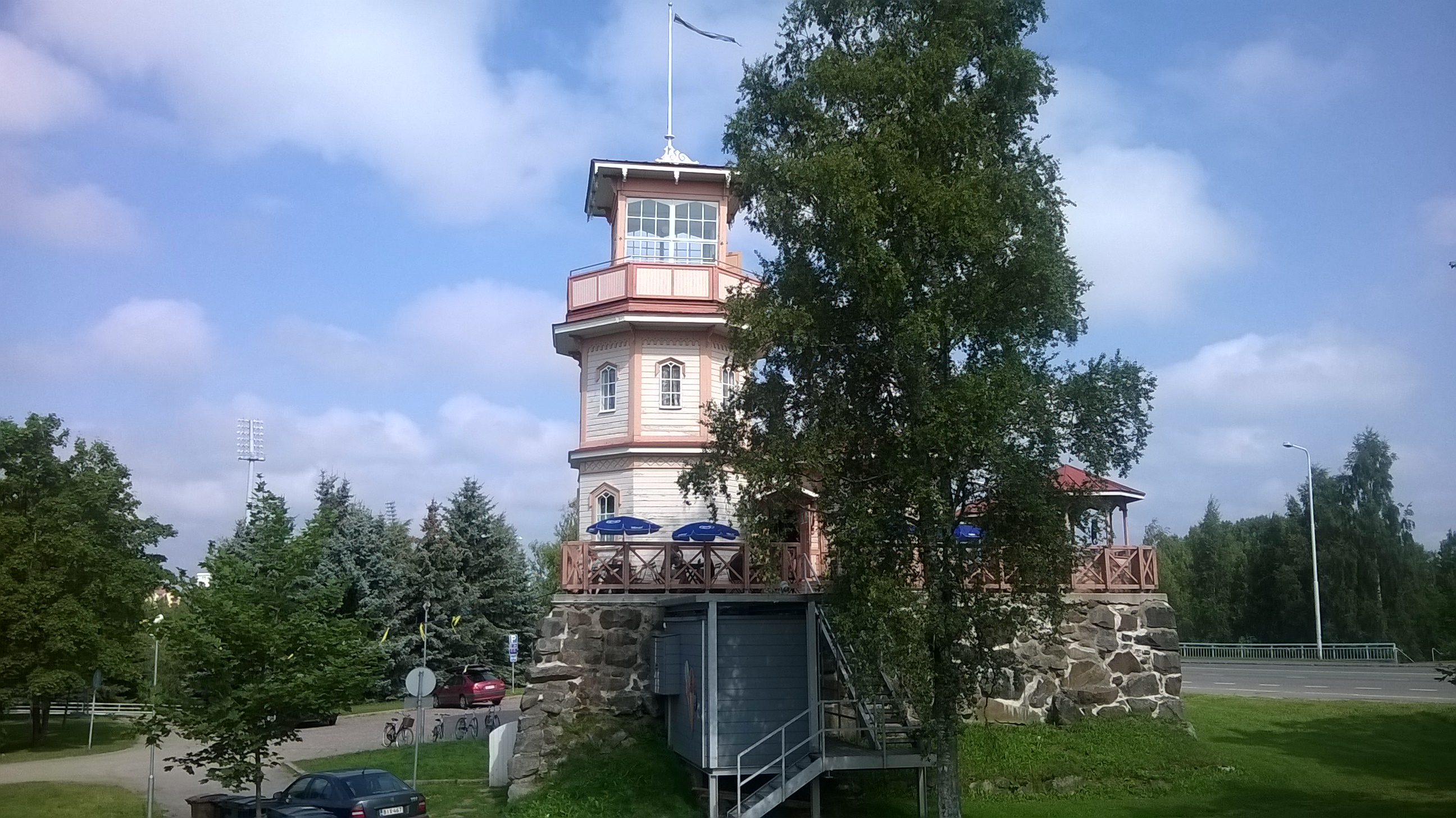 Tähtitorni in Oulu, Finland